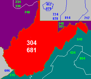 West Virginia Area code 304 and surrounding area codes.